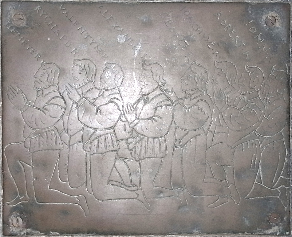 Monumental brass in St Giles in the Wood Church, Devon, depicting the 8 sons of John Rolle (1522-1570) by his wife Margaret Ford. Their names are inscribed left to right: Henrye R, Rychard R, Valentyne R, Alexander R, George R, Joachyme R, Robert R, John R.